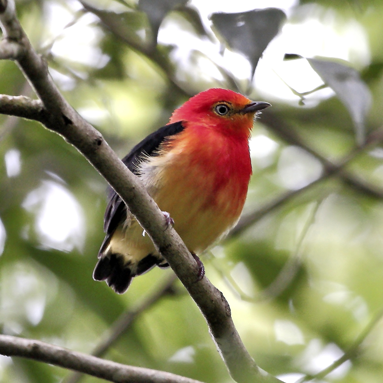 Band-tailed manakin (male) at Guaramiranga - Ceará - Brazil